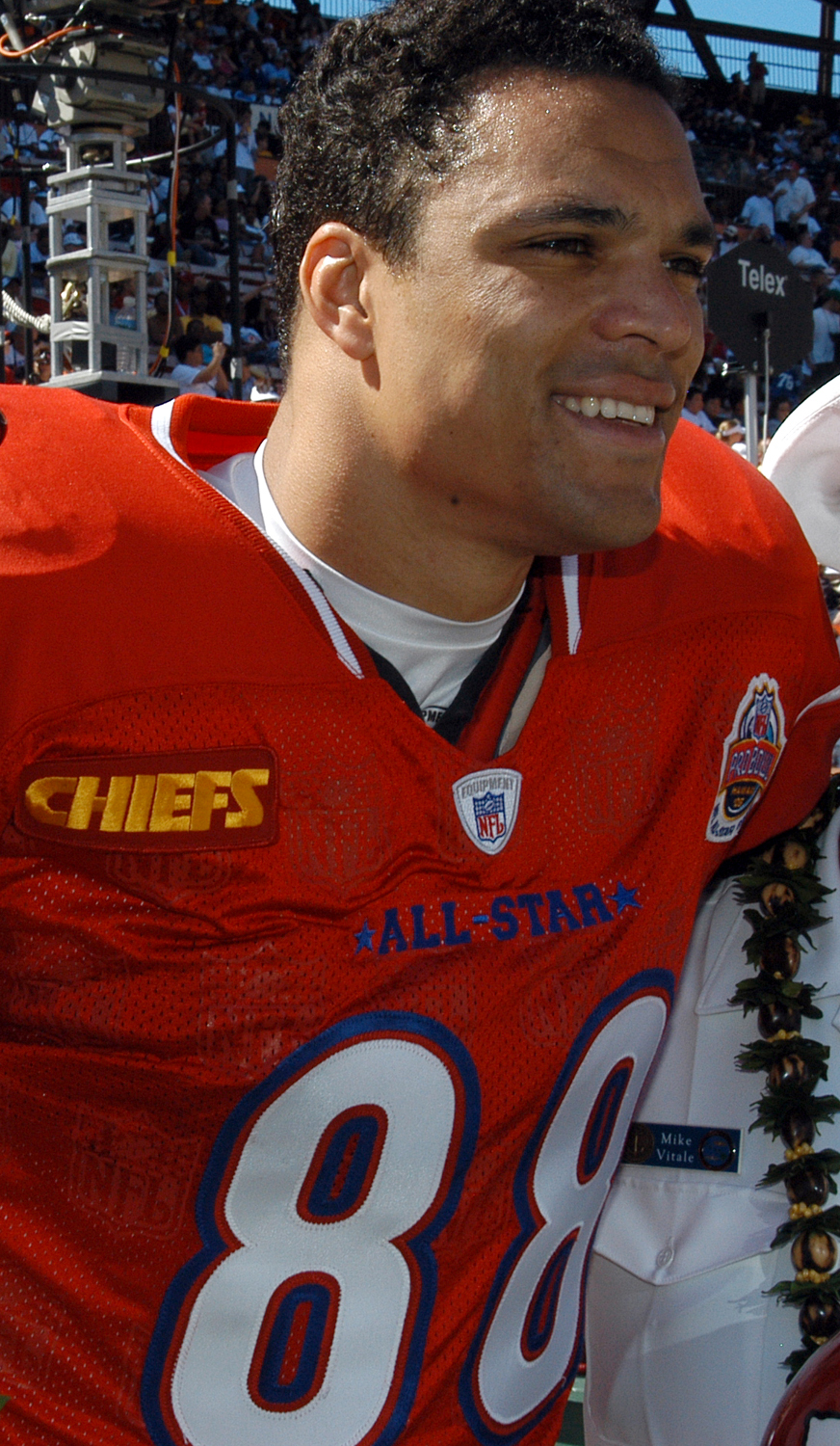 Commander, U.S. Pacific Command, Adm. Thomas Fargo, left, and Commander, Navy Region Hawaii, Rear. Adm. Michael C. Vitale pose for a photograph with the Kansas City Chief's Tight End Tony Gonzalez prior to the kickoff of the 2005 NFL Pro Bowl held in Honolulu, Hawaii. Fargo performed the coin toss to start the game, which also included joint service color guards, a Hawaii Air National Guard F-15 Eagle flyover and a salute to more than 60 Purple Heart recipients.